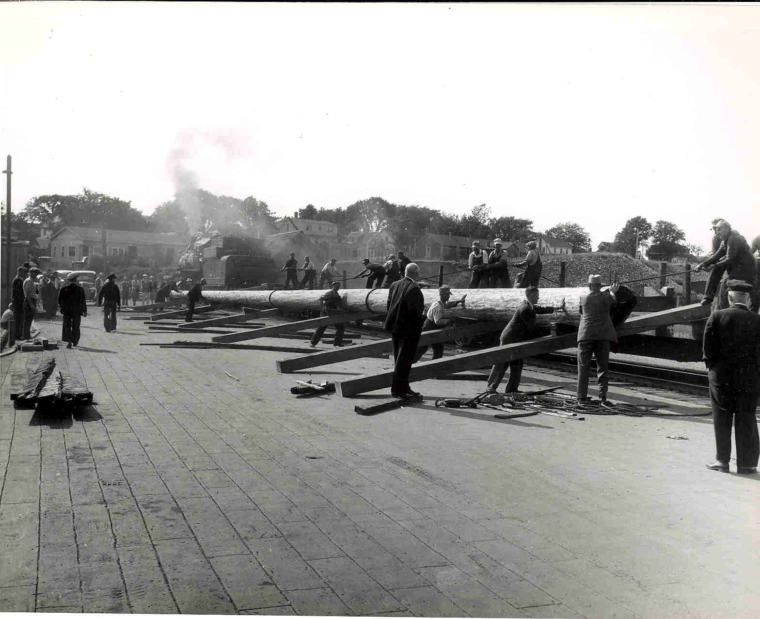 128 foot long Douglas fir log, destined to become the flagpole in the Grand Parade, Halifax, being loaded onto a CPR flatcar in Digby, Nova Scotia in 1947.